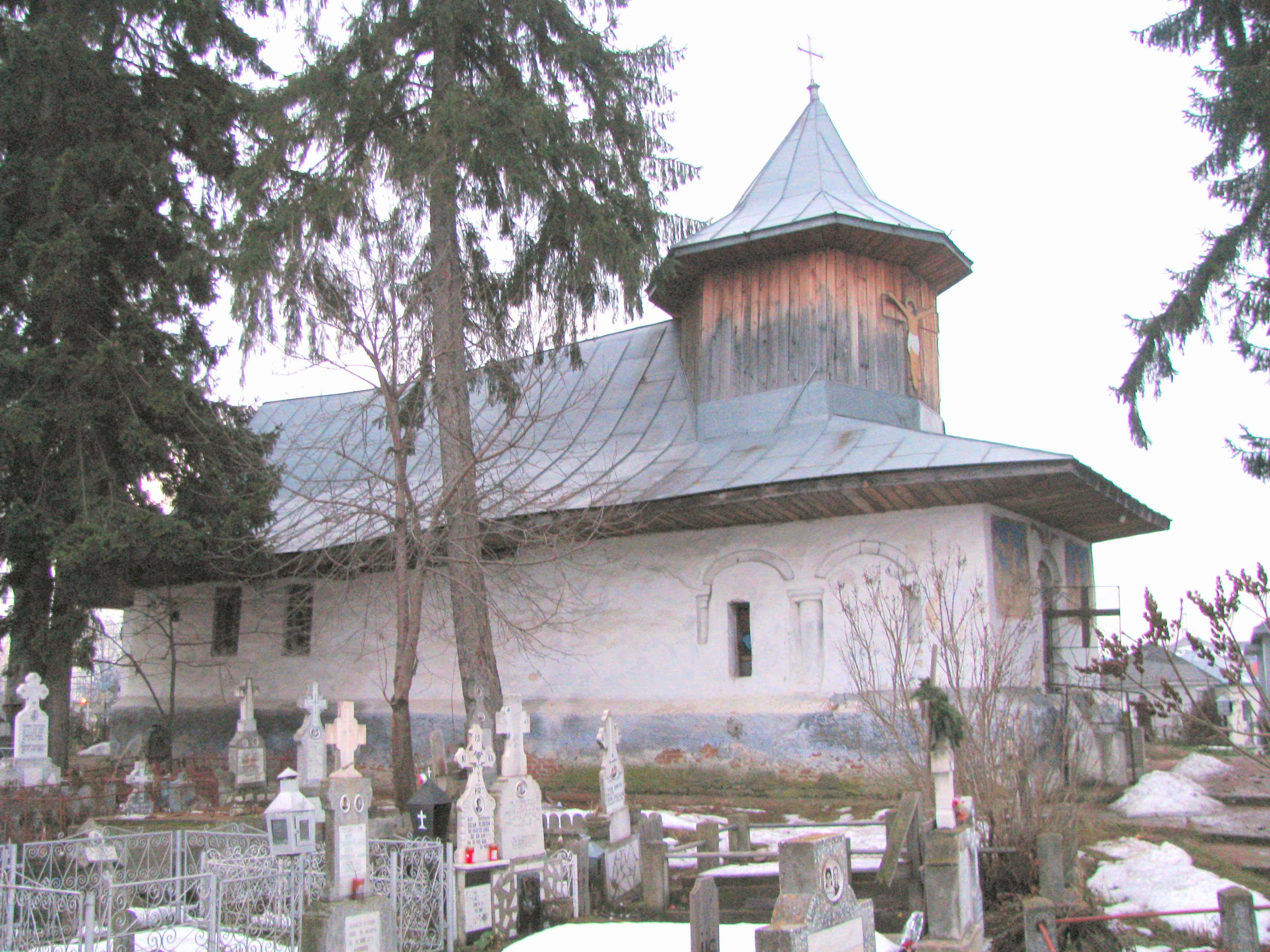 Wooden church in Bascov, Argeș County, Romania